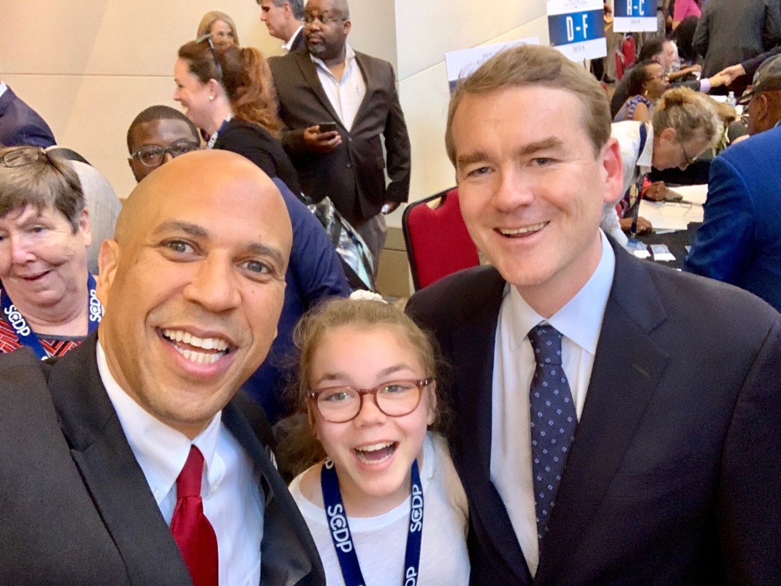 It’s no surprise that @CoryBooker generated so many dedicated staff, volunteers, and supporters. He’s as true a public servant as you’ll find anywhere. He made this race more compassionate and optimistic, and I look forward to many more years of his inspired leadership.